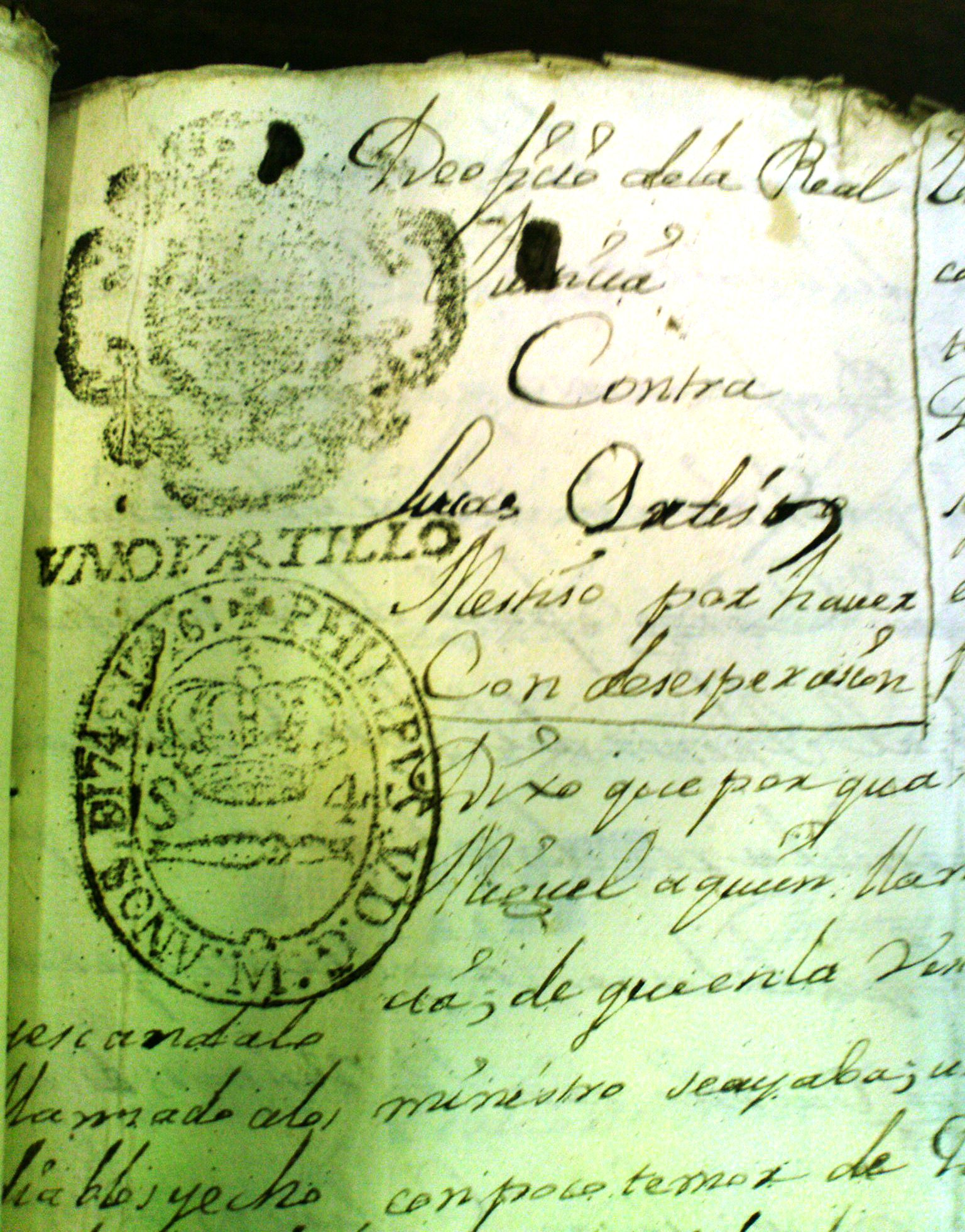 Sellos de la Inquisicion en Mexico